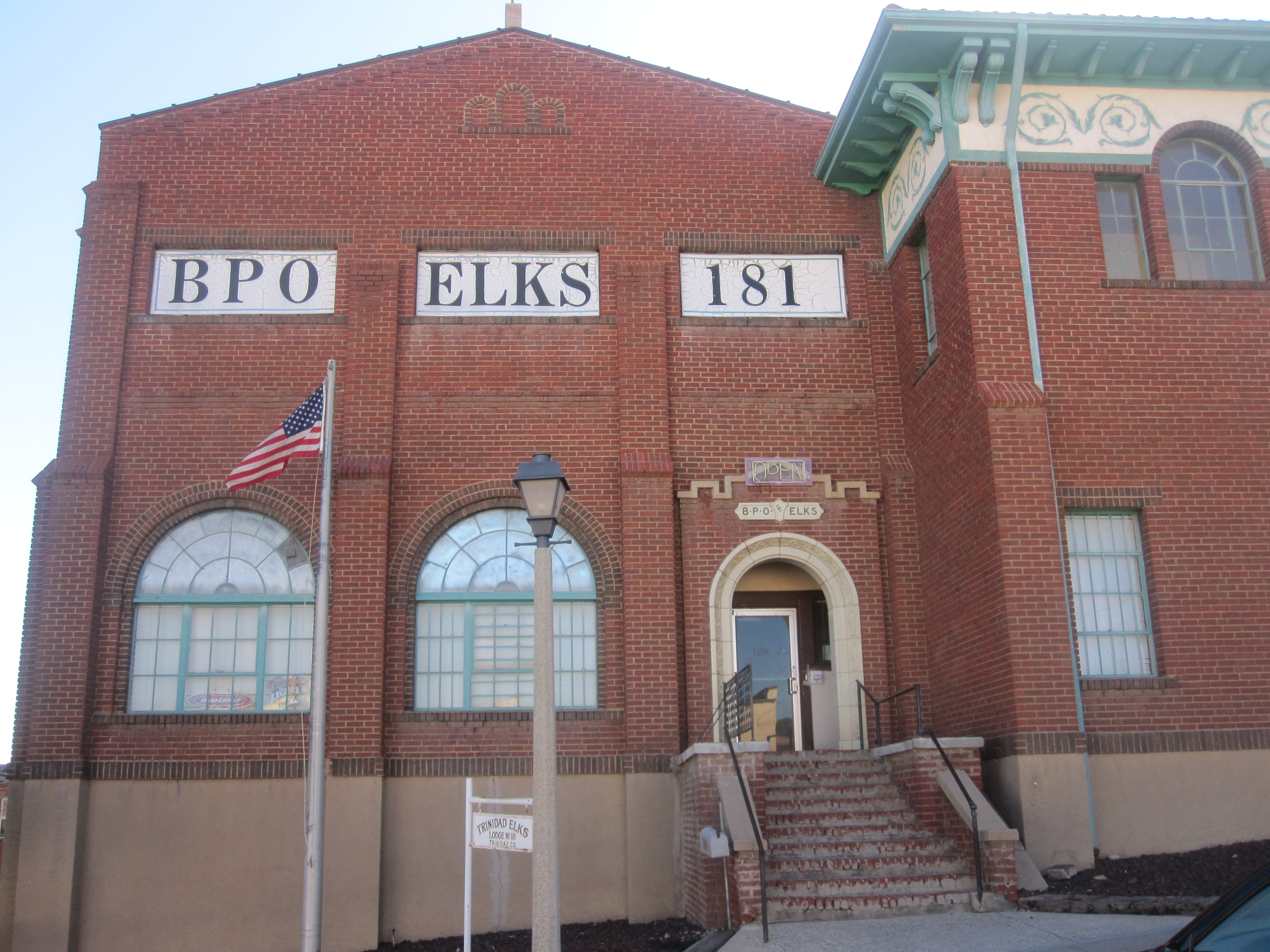 I took photo with Canon camera in Trinidad, CO.